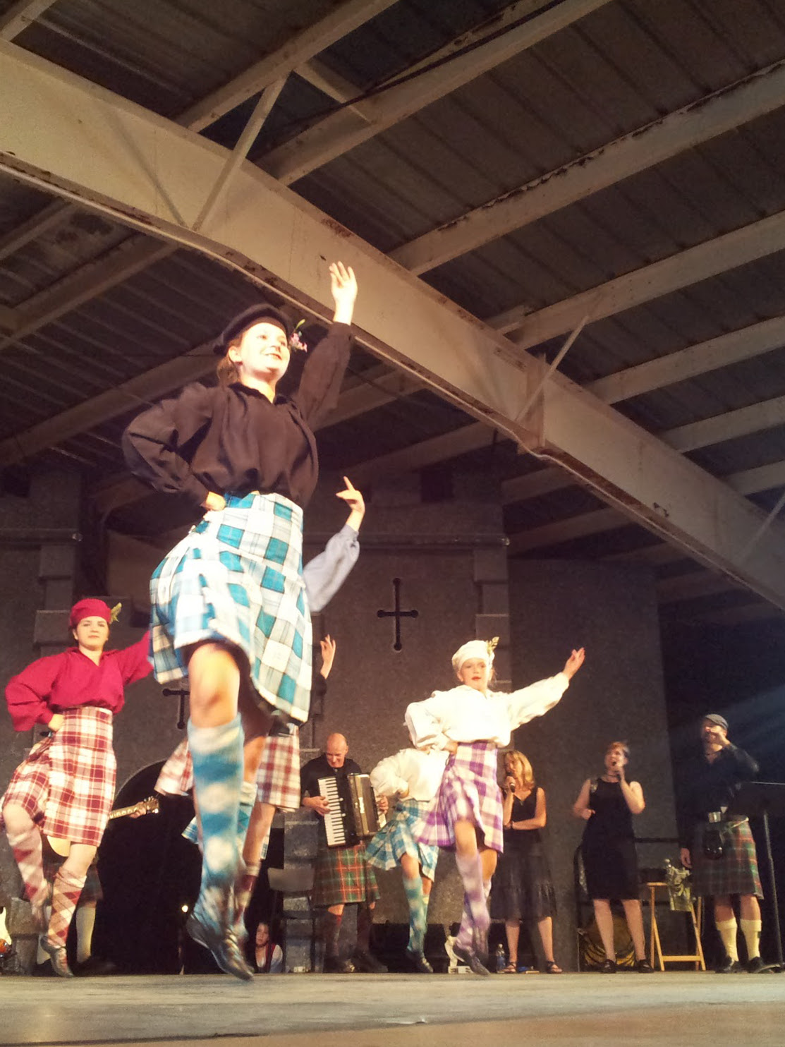 Performers at the 2012 Scottish Pavilion at Folklorama in Winnipeg, Manitoba, Winnipeg